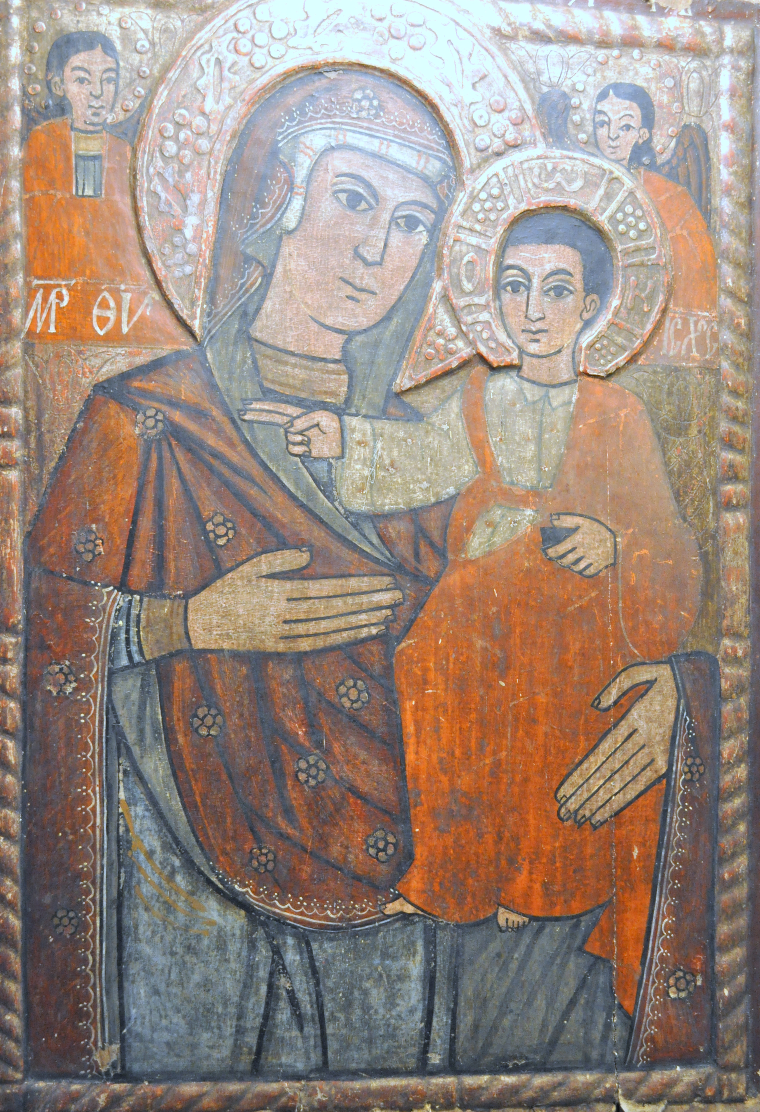 Icon of Virgin Mary, 18th century